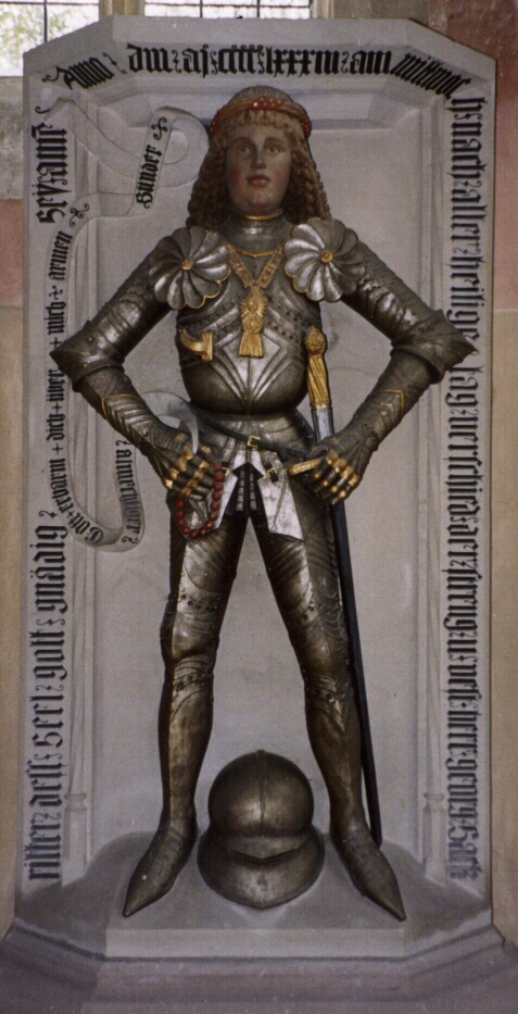 Tomb effigy of Georg Sack (d. 1483) member of the Knights of the Swan, an order of the House of Cleve, Heilsbronn, Mittelfranken (Bavaria), Germany. Ritter Sack op zijn grafmonument in Heilsbronn in Mittelfranken